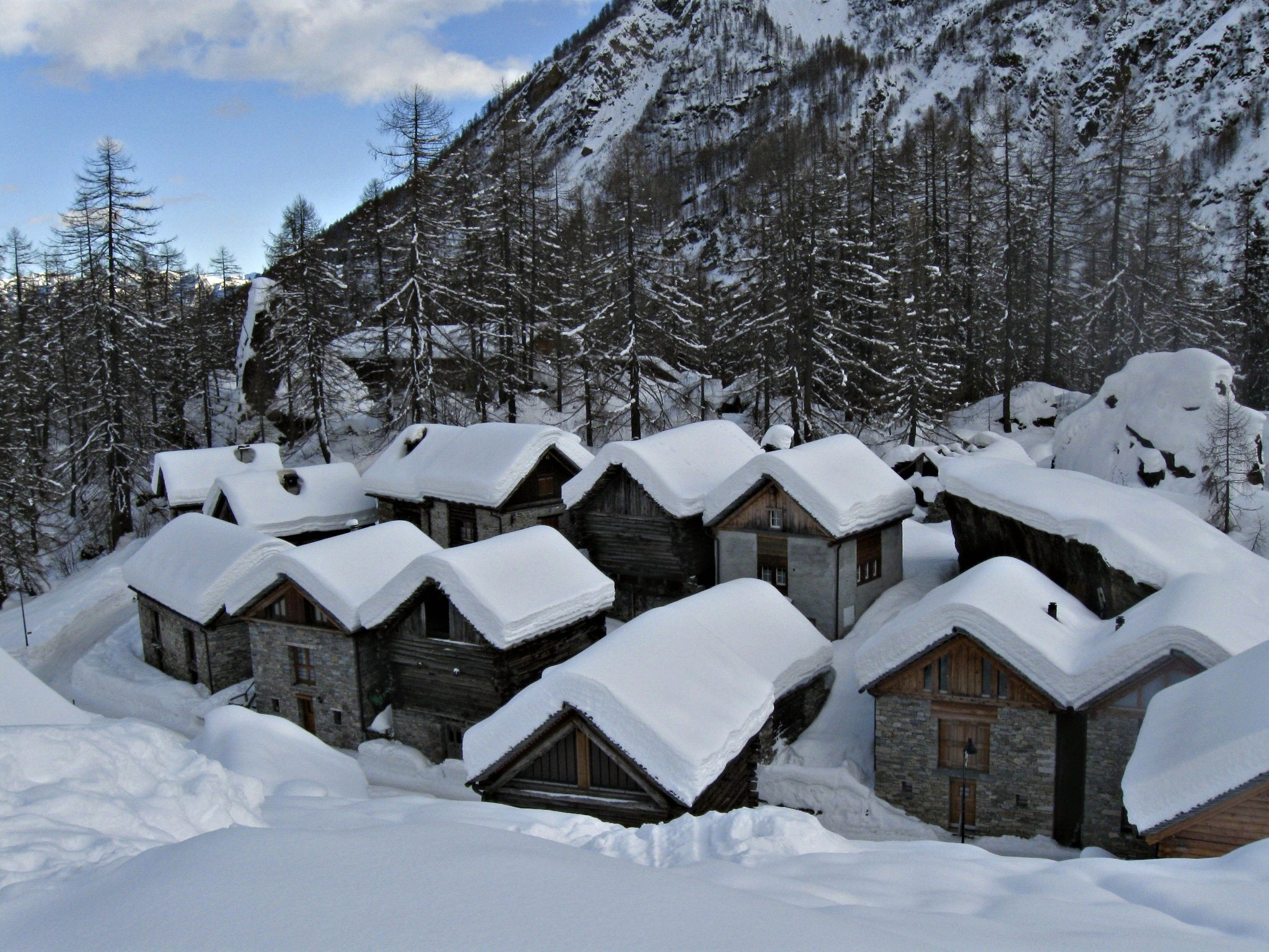 Ferder village in Bosco Gurin, Ticino, Switzerland